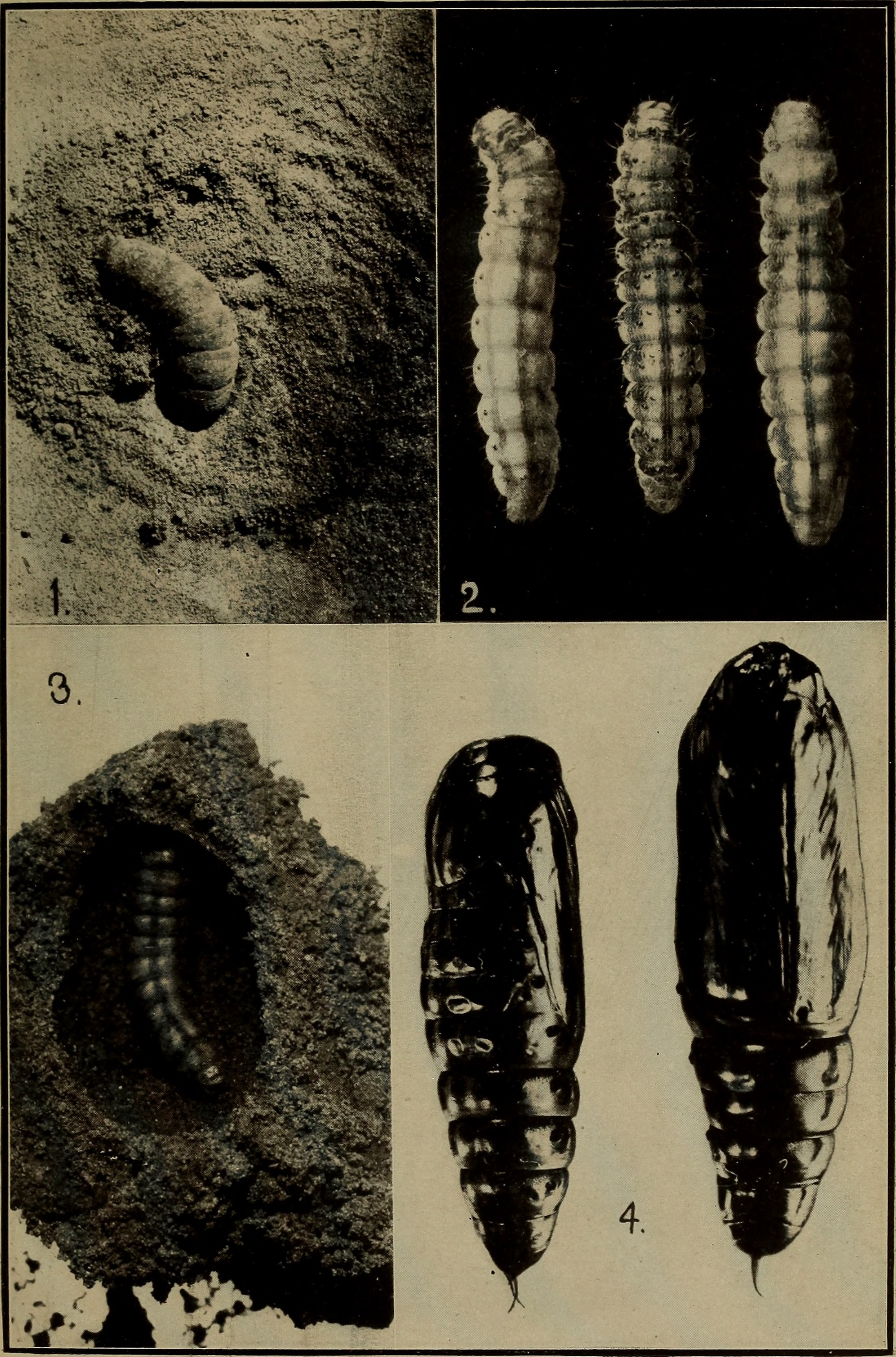 Title: Bulletin Year: 1904 (1900s) Authors: United States. Bureau of Entomology Subjects: Insects; Insect pests; Entomology; Insects; Insect pests; Entomology Publisher: Washington : G. P. O. Text Appearing Before Image: Bui. 50, Bureau of Entomology, U. S. Dept. of Agriculture. Plate XII. Text Appearing After Image: Pupation of the Bollworm. Fig. 1. Full-grown larva entering soil for pupation; fig. 2, three larvse. showing shrunken appear- ance just before pupation; fig. 3, larva in cocoon as made in sandy soil; fig. 4, two bollworm pupae—fig. 3 about natural size; figs. 1-2 enlarged one-half; fig. 4 enlarged three times (original).